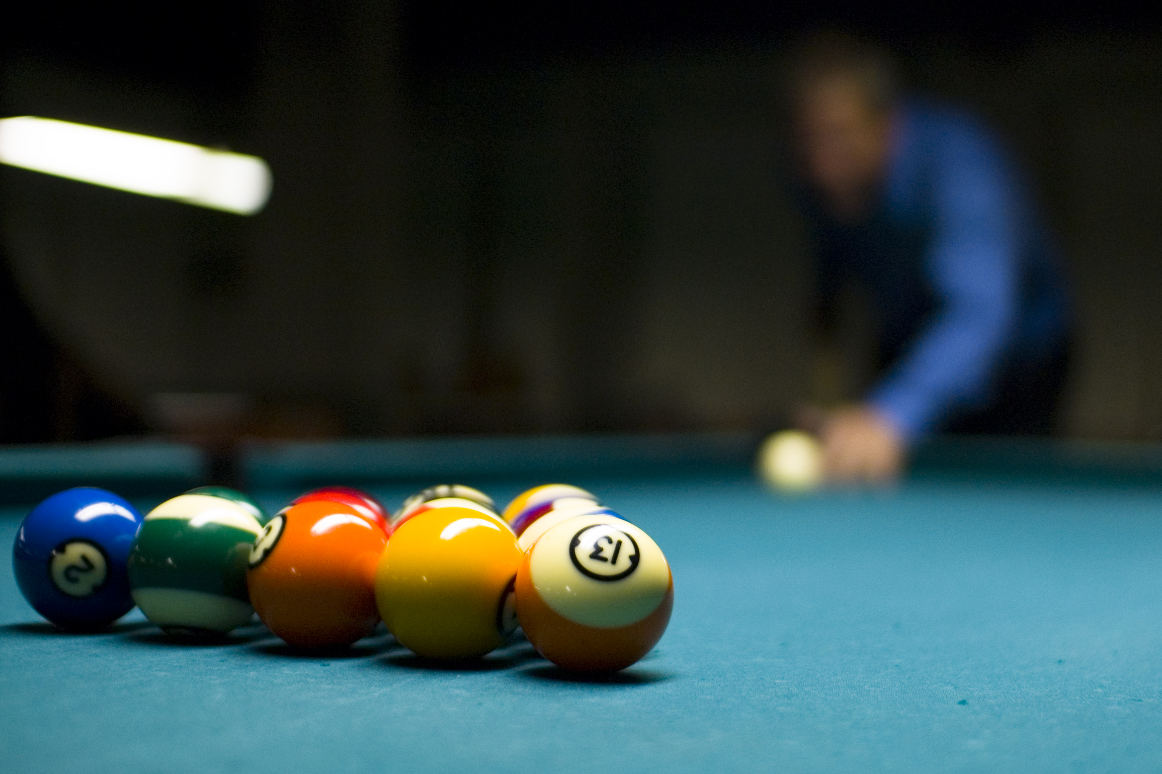 An eight ball rack about to be broken.